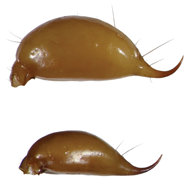 Euscorpius avcii, male (upper) and female telson